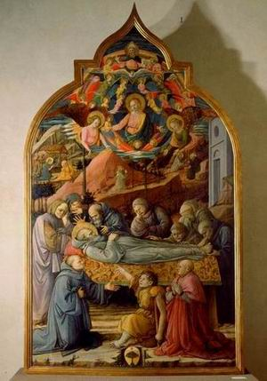 Funeral of St Jerome, 1460-65, Panel, 268 x 165 cm, Duomo, Prato Other works